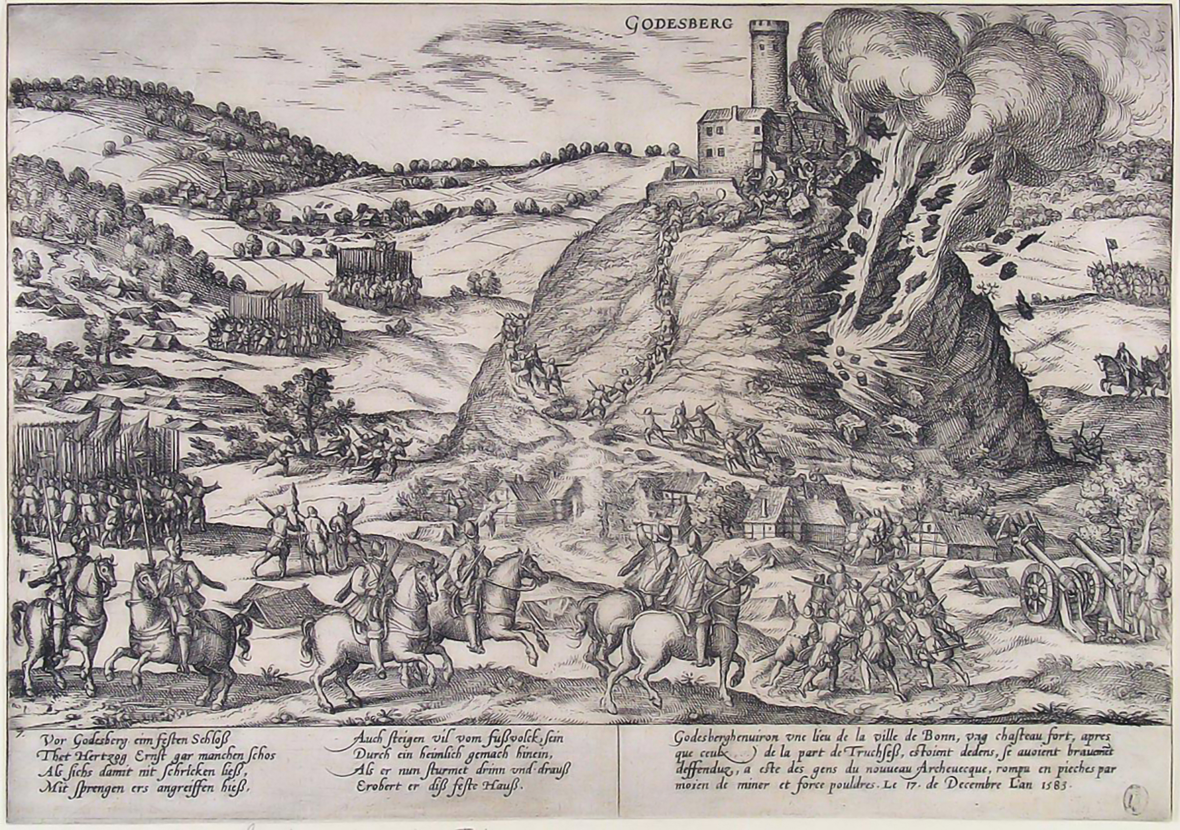 Capture of Godesberg in 1583. Etching. Rotterdam, Museum Boijmans Van Beuningen (inv.no. BdH 14487 (PK)).